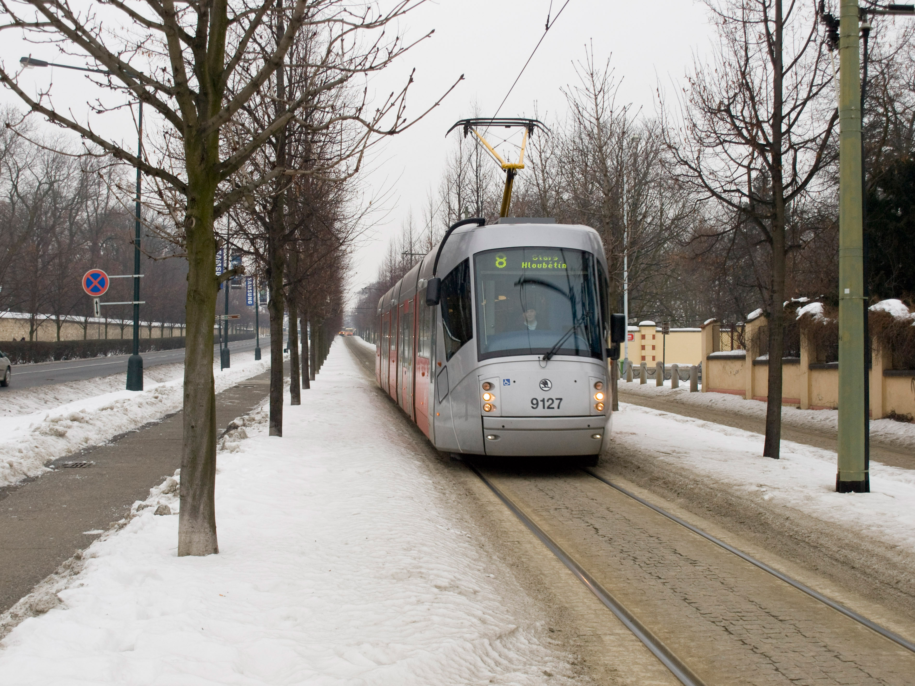 Škoda 14T comming from stop Pražský hrad, tram stop Královský letohrádek, Prague